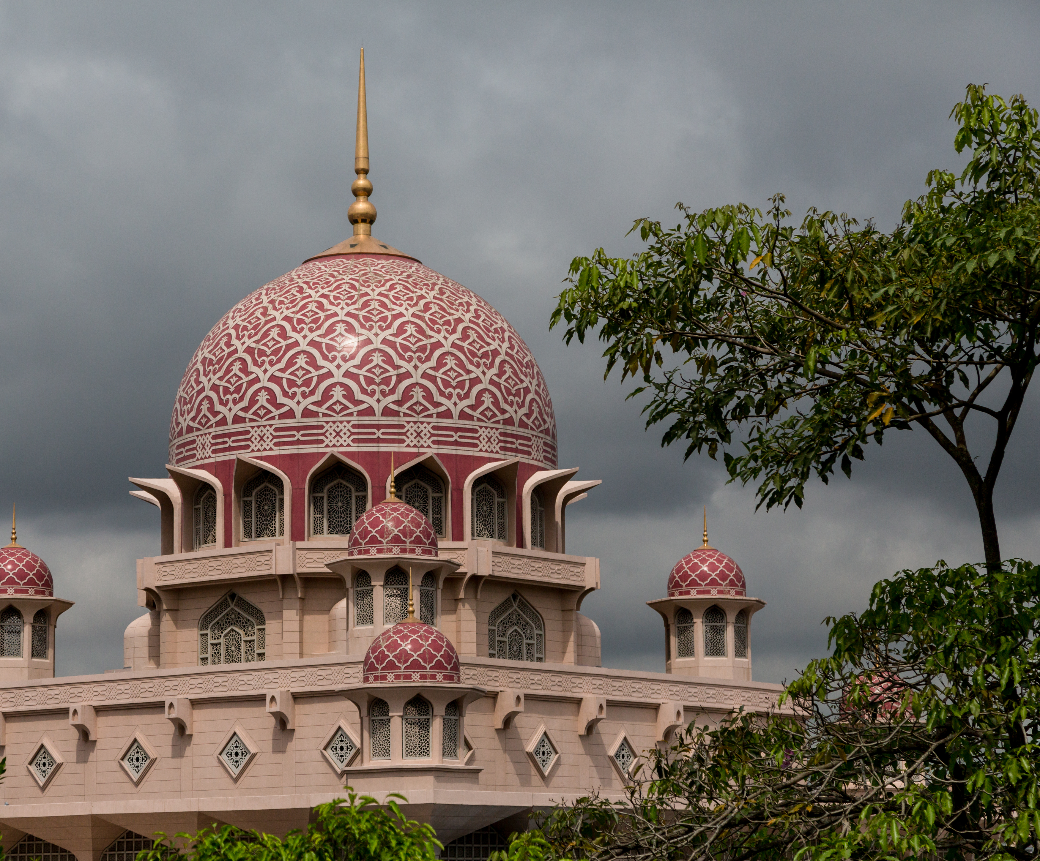 Putrajaya, Malaysia: Detail of Putra Mosque